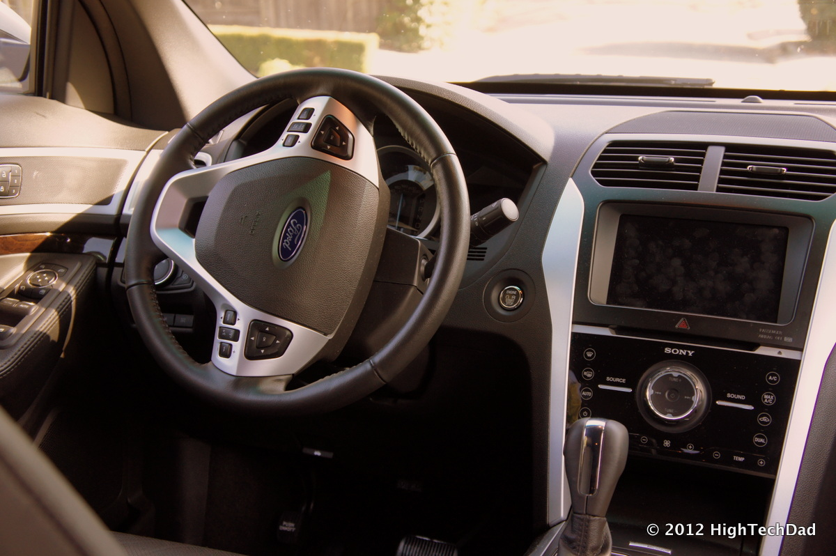 Photos from 10 day test drive of 2011 Ford Explorer Limited. More information can be found at